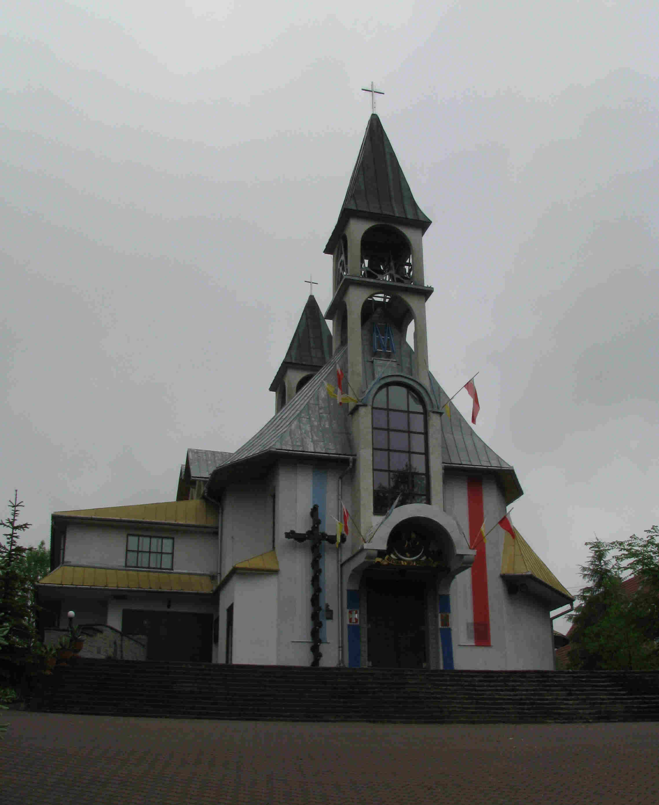 Our Lady Queen of Poland church in Ponice near Rabka.